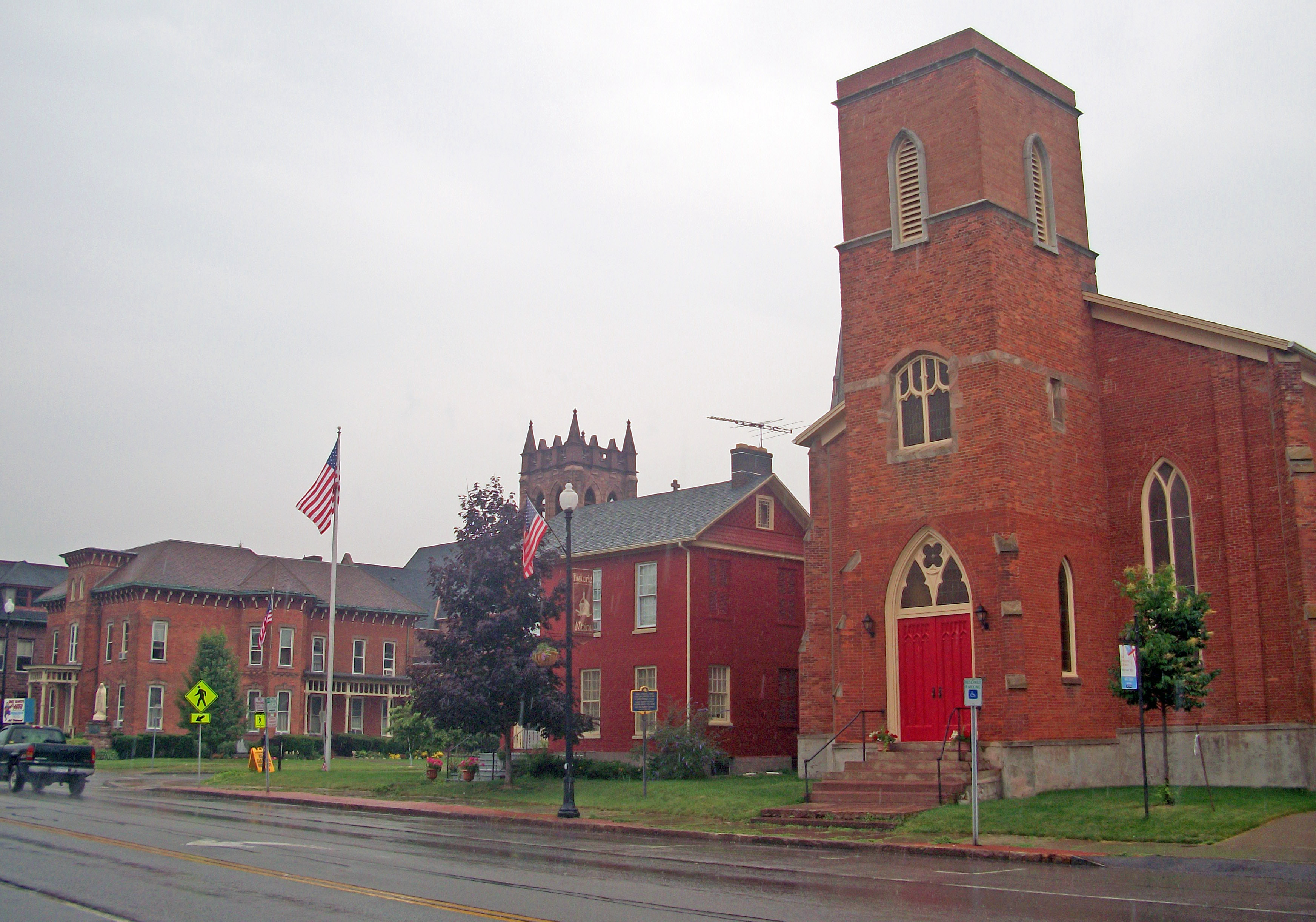 From left, St. Joseph's Church rectory, Cornell Cooperative Extension building and Christ Episcopal Church, all contributing properties to the Orleans County Courthouse Historic District, Albion, NY, USA